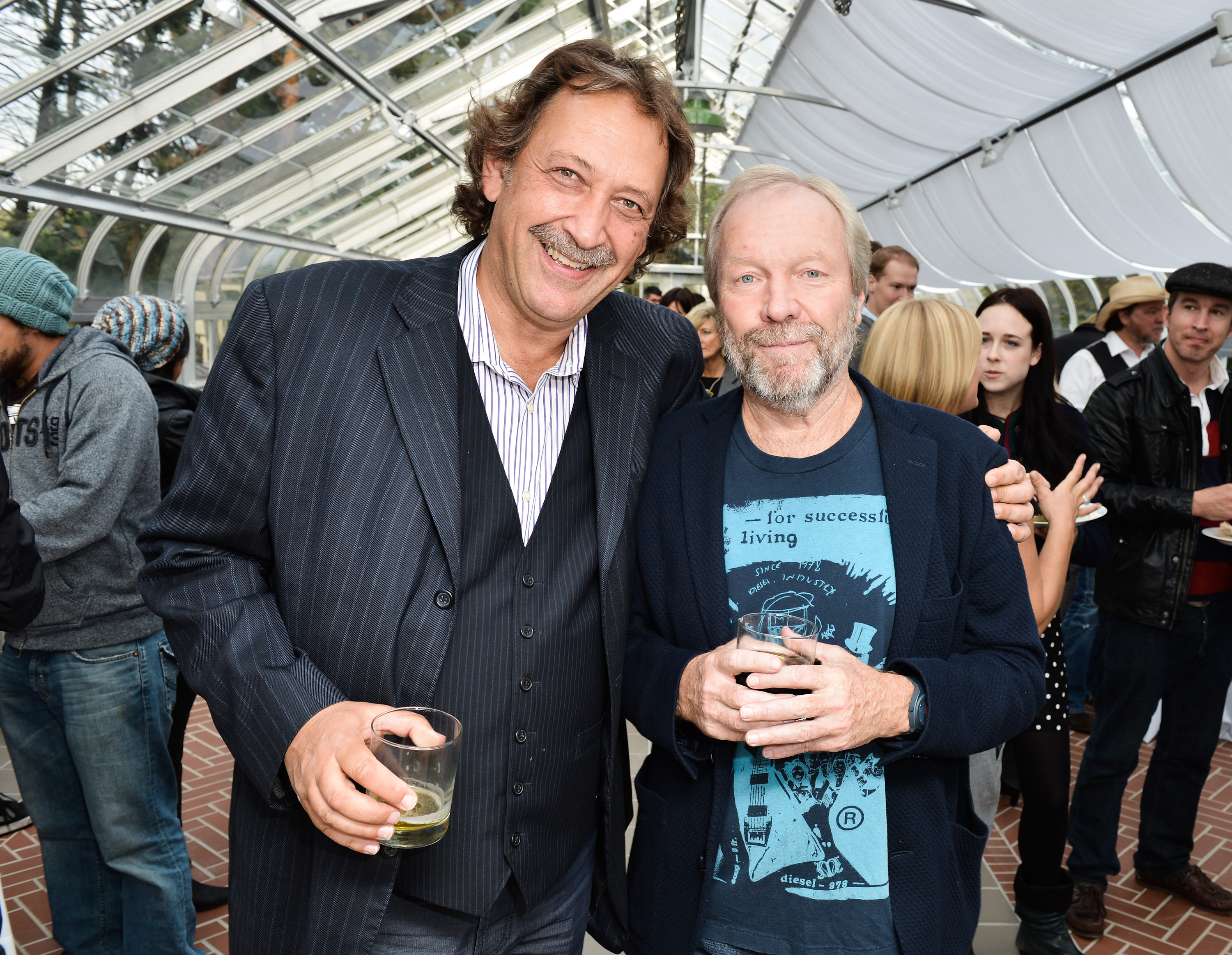 On September 24, CFC welcomed the resident composers and songwriters of the inaugural Slaight Music Residency. CFC Founder Norman Jewison and Bruce McDonald hosted a master class to kick the program off, and a reception was held at the CFC Greenhouse afterwards. To learn more about the Slaight Music Residency, visit: Photo by Sam Santos.